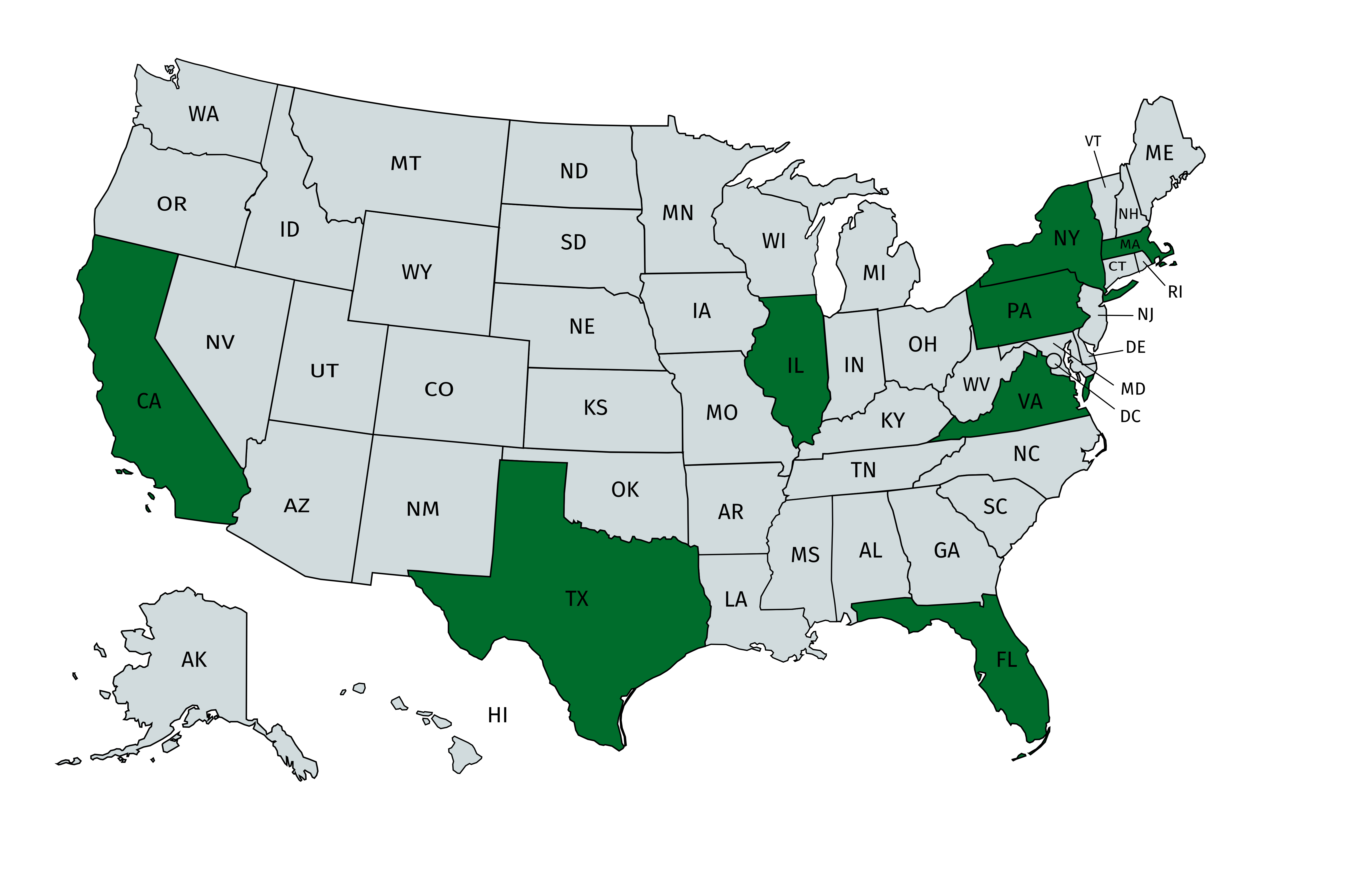 Map showing states represented at the 1954 Little League World Series, which was held from August 24 to August 27 in Williamsport, Pennsylvania.